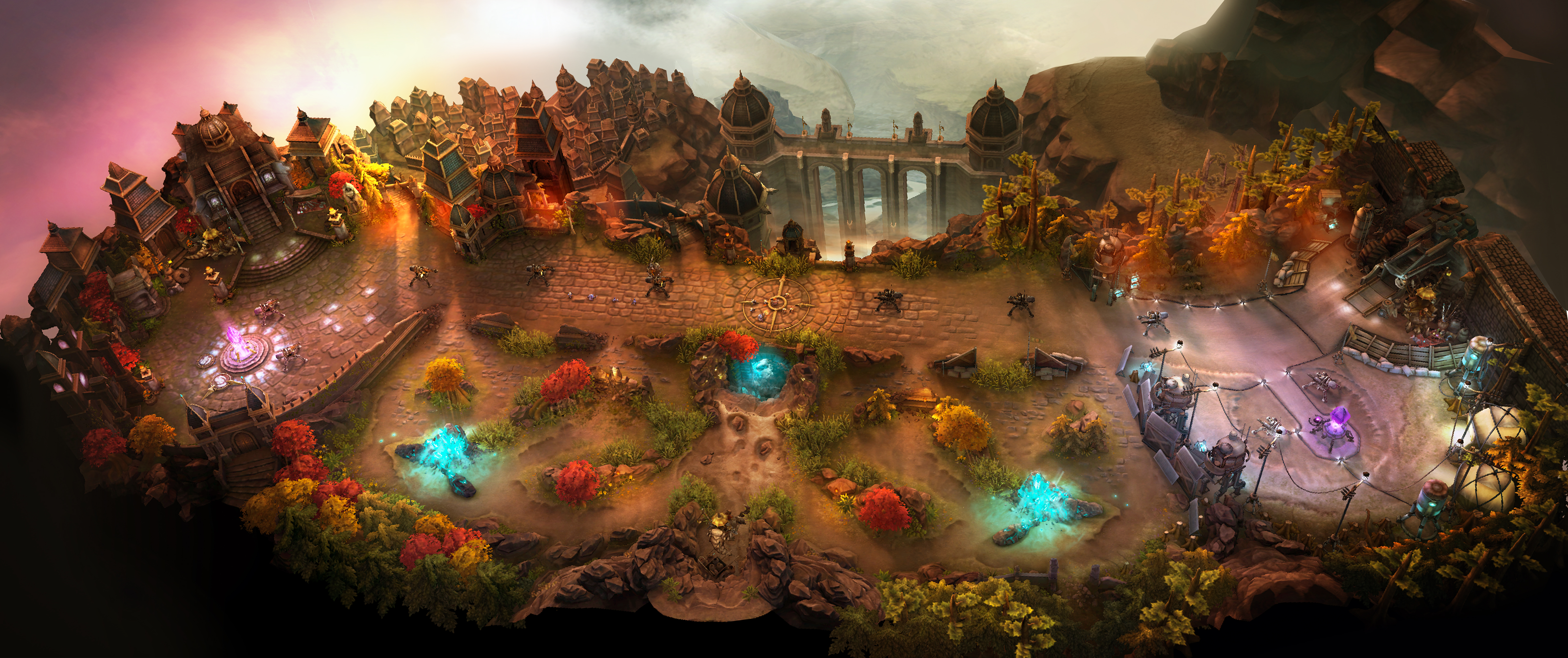 Halcyon Fold map from the mobile multiplayer online battle arena (MOBA) video game Vainglory. It is set up with team bases on both ends, the single "lane" connecting the two, and the "jungle" underbrush beneath the lane. Turrets line the lane to ward off enemy advances. (JPG version expected to render as thumbnail better than TIF.)